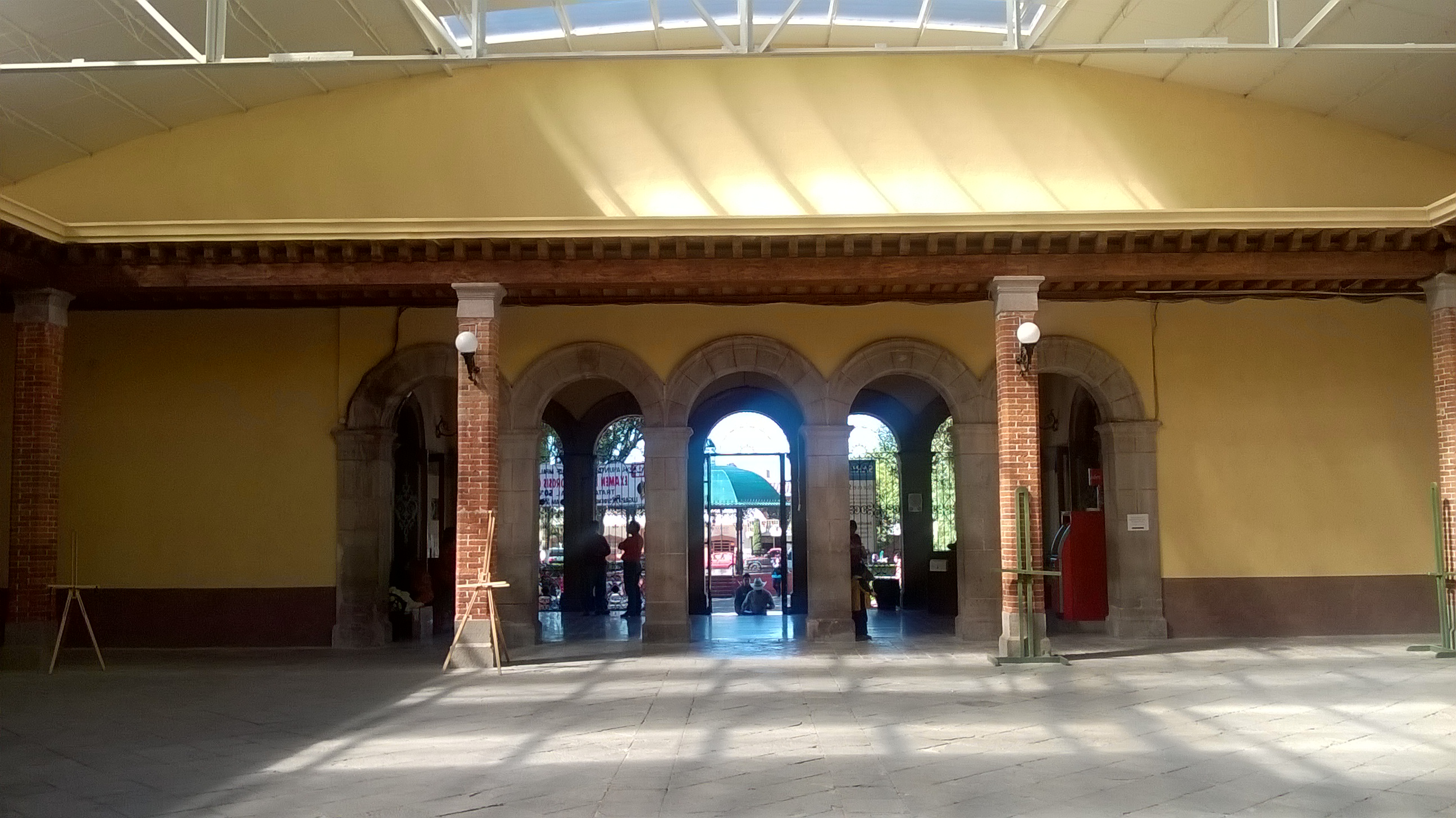 House of governement Tlaxco, Tlaxcala